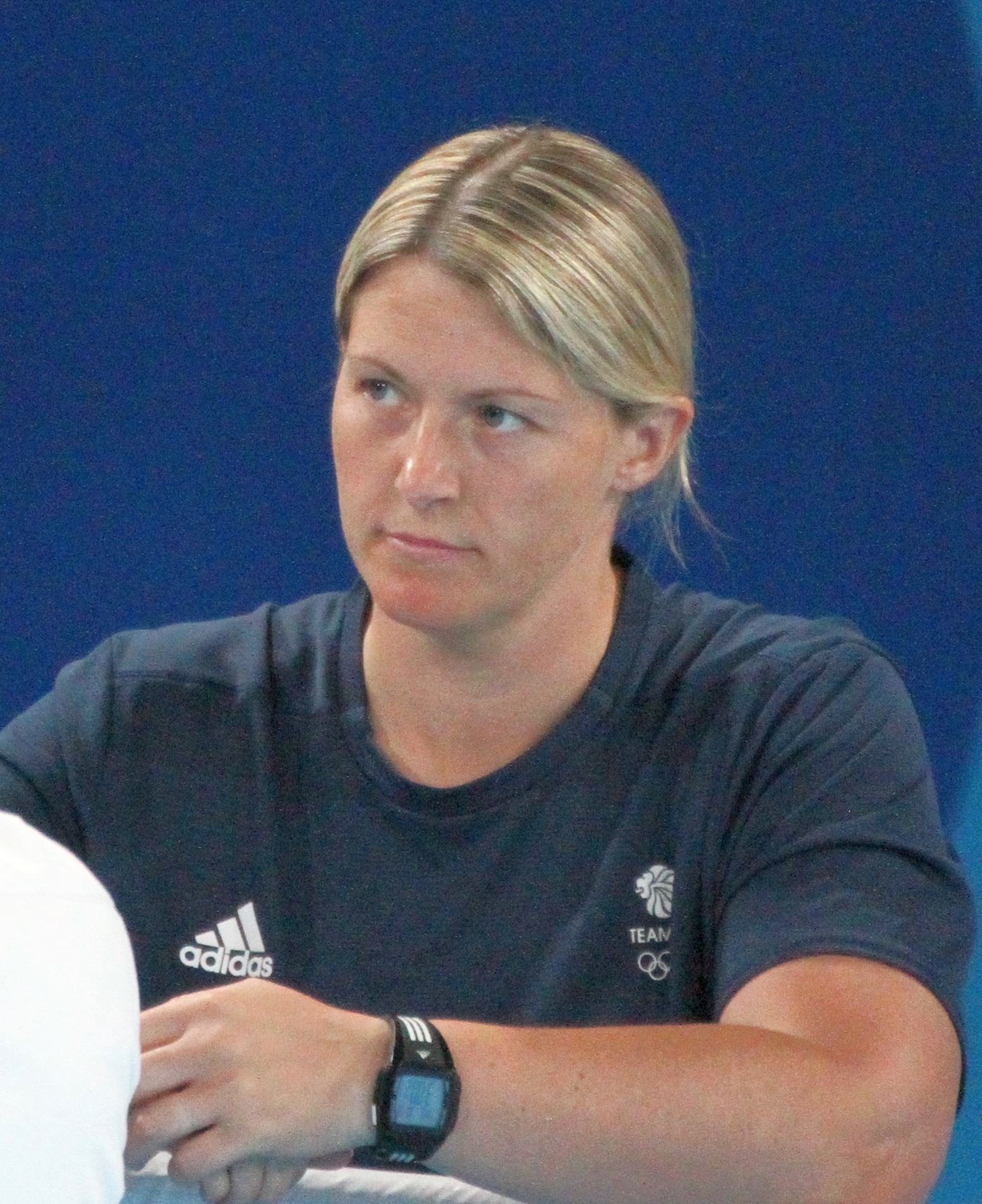 Boxing at the 2018 Summer Youth Olympics on 18 October 2018 – Gold Medail Match light heavyweight Boys - Karol Itauma (Great Britain, blue) beats Ruslan Kolesnikov (Russia, red) 4-1; Referee is Alejandro Barrientos (Cuba).